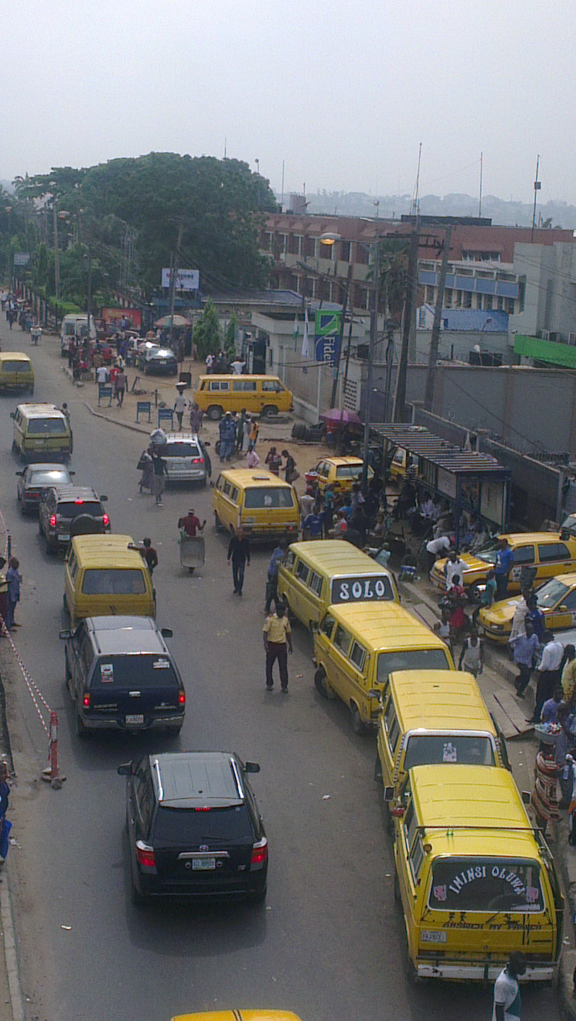 Yellow buses on the service lane This is an image from Nigeria